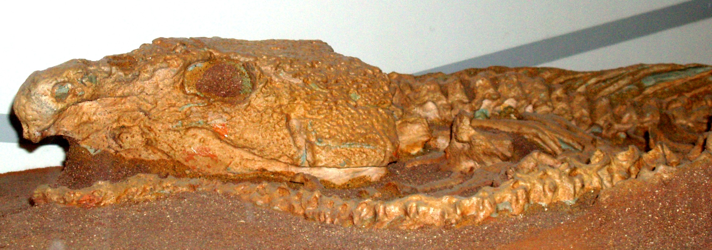 Fossil of Labidosaurus hamatus, an extinct reptile